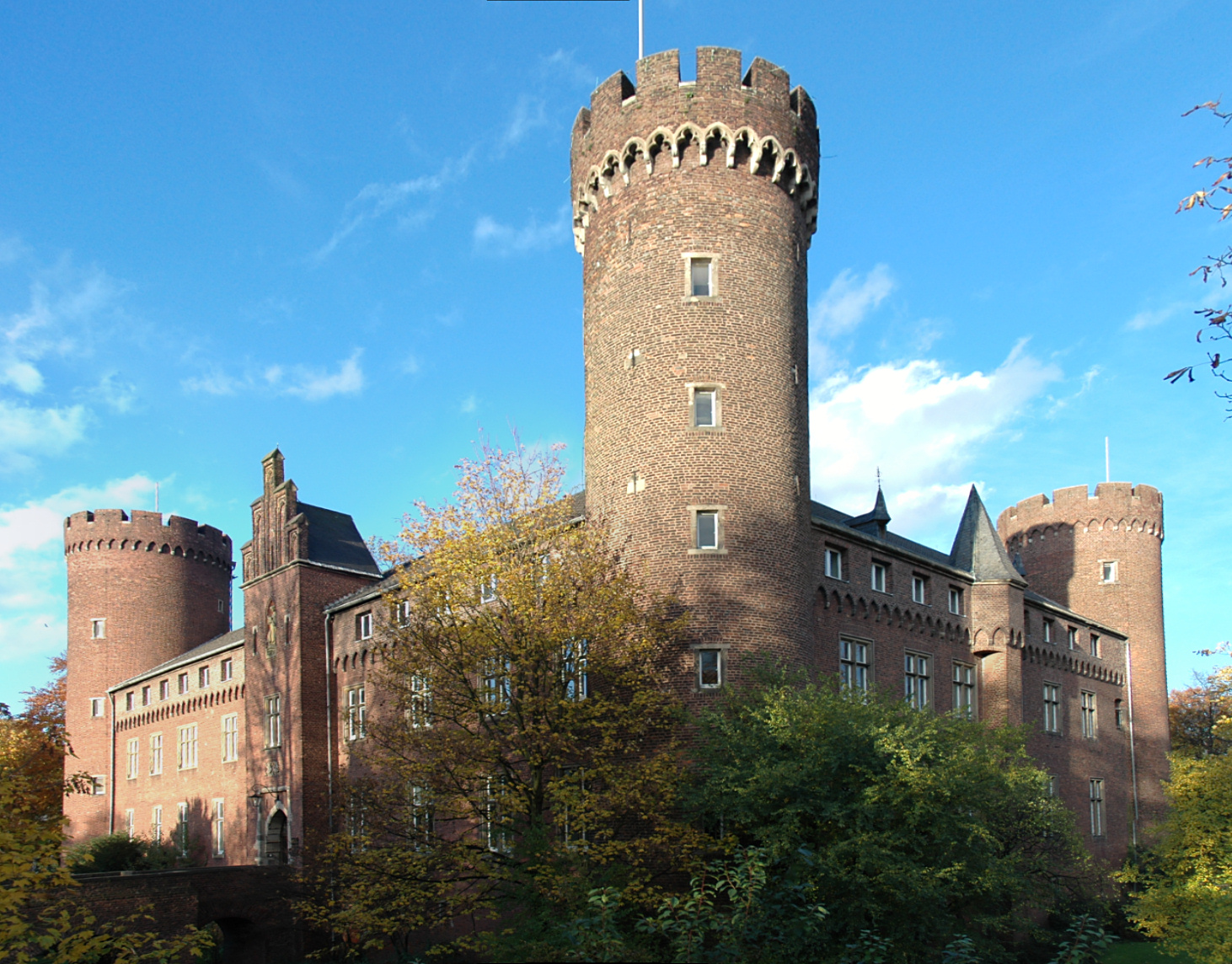 Castle of Kempen, southern aspect This image shows a heritage building in Germany, located in the North Rhine-Westphalian city Kempen (no. 2).